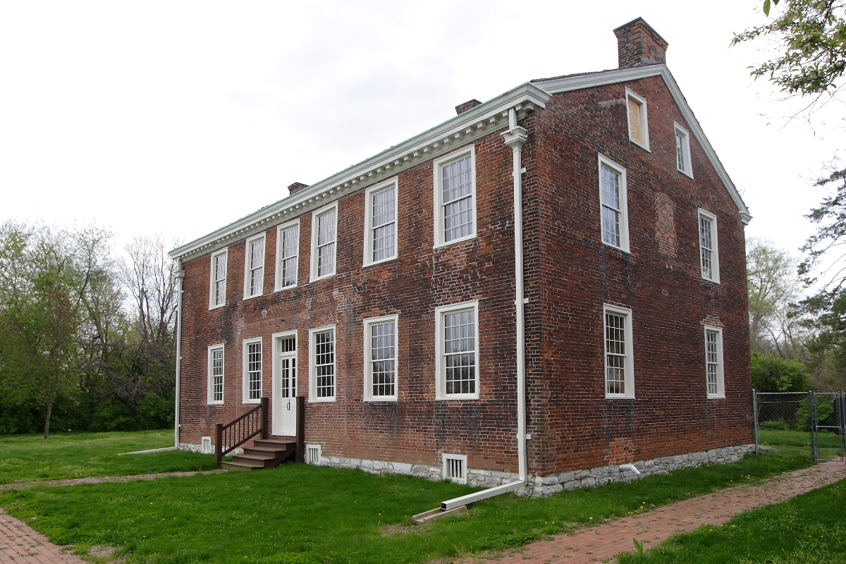 Nicolas Jarrot Mansion, Cahokia, Illinois.